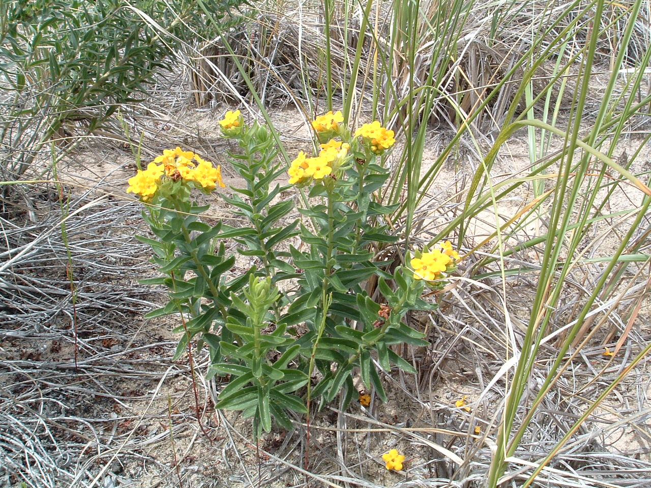 Lithospermum caroliniense